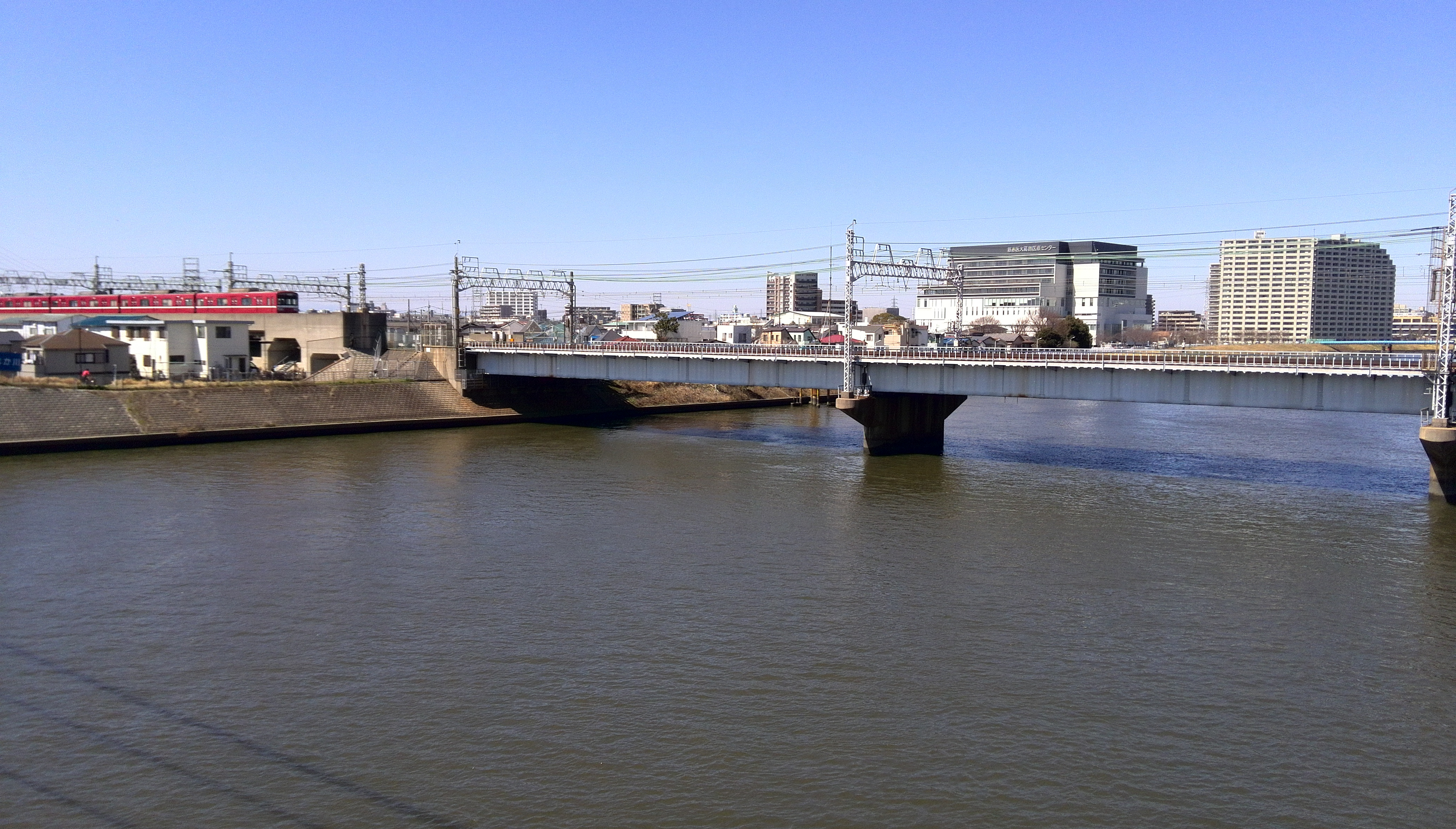 Keisei main line bridge west of Keiseitakasago station